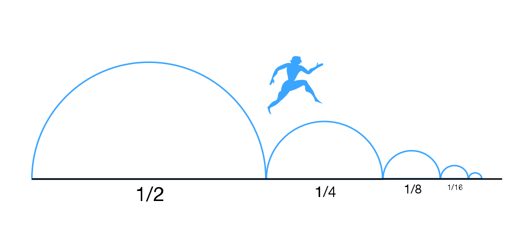 Zeno's paradoxes are a set of philosophical problems generally thought to have been devised by Greek philosopher Zeno of Elea (ca. 490–430 BC) to support Parmenides's doctrine that contrary to the evidence of one's senses, the belief in plurality and change is mistaken, and in particular that motion is nothing but an illusion. Source: Grandjean, Martin (2014) Henri Bergson et les paradoxes de Zénon : Achille battu par la tortue ?